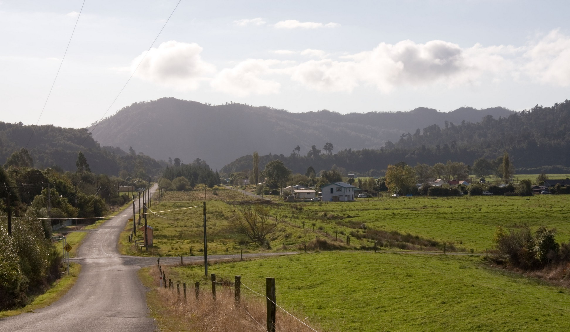 An overview of Seddonville in 2009